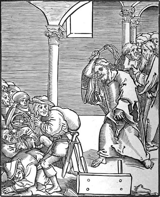 the pope selling indulgences